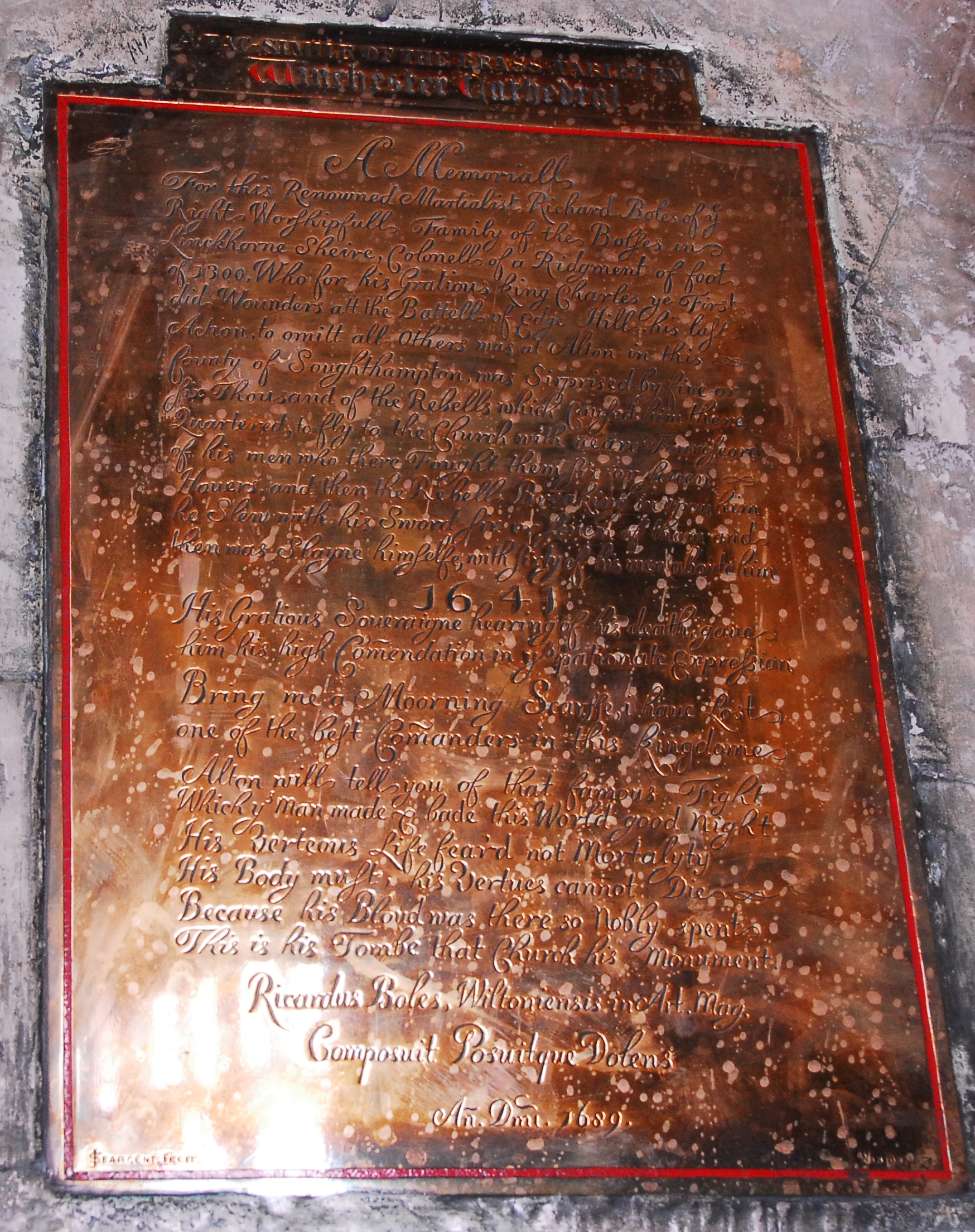 Brass in Church of St Lawrence, Alton, to Colonel Boles (facsimile of a brass in WIinchester Cathedral)